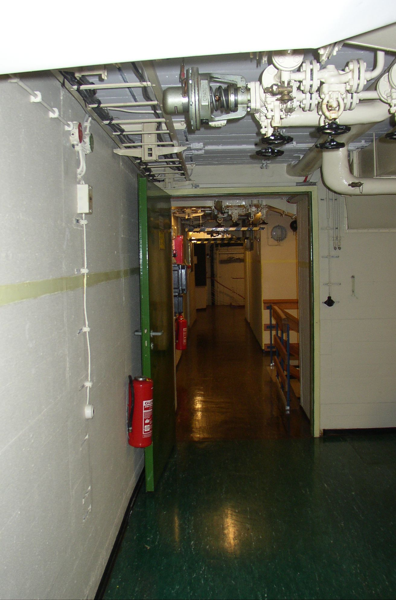 Bunker, part of Warnamt 1